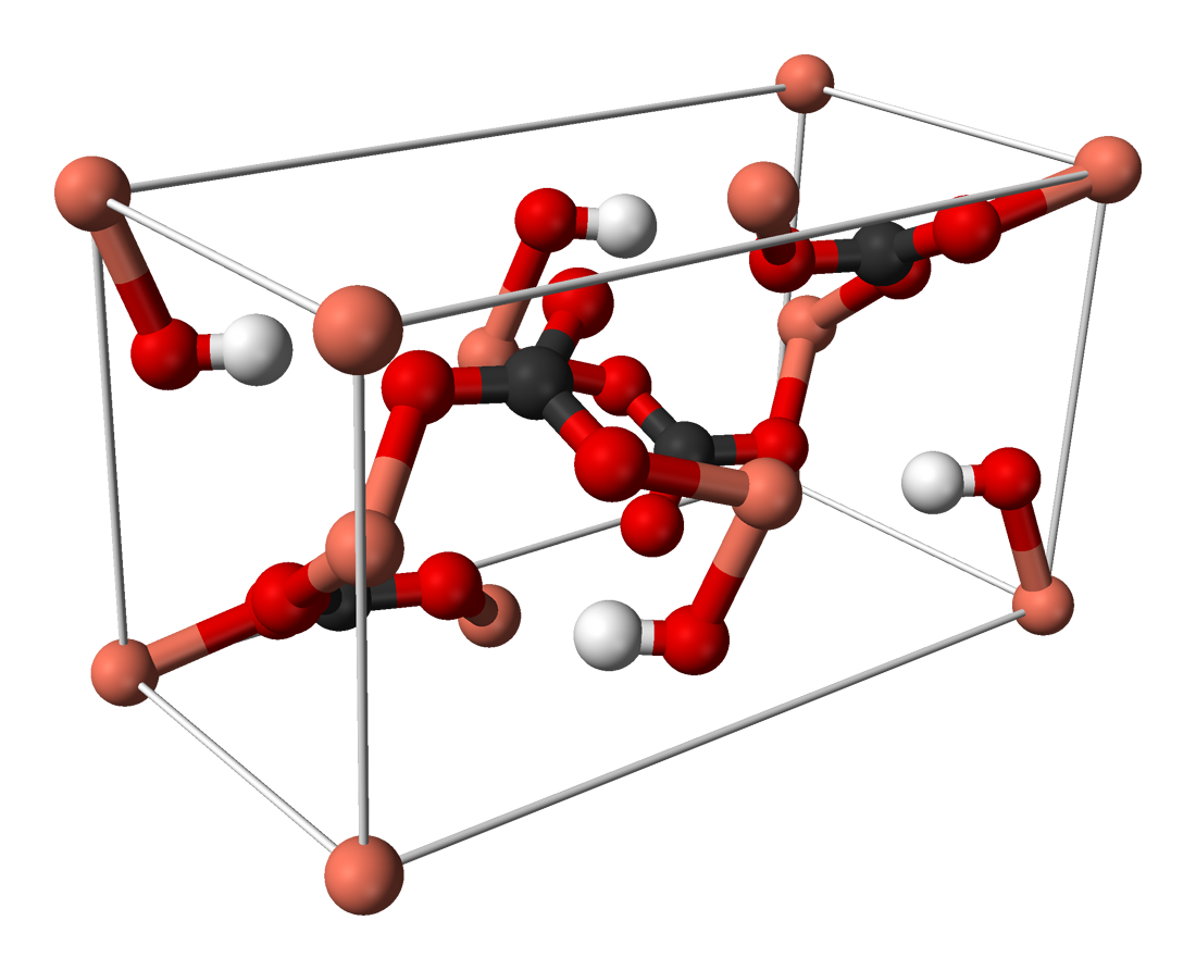 Ball-and-stick model of the unit cell of azurite, Cu3(CO3)2(OH)2